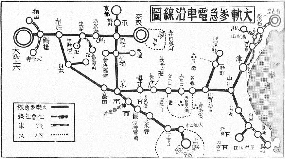 Sangu Kyuko Electric Railway(present-day "Sharp Corporation") Map in 1930s